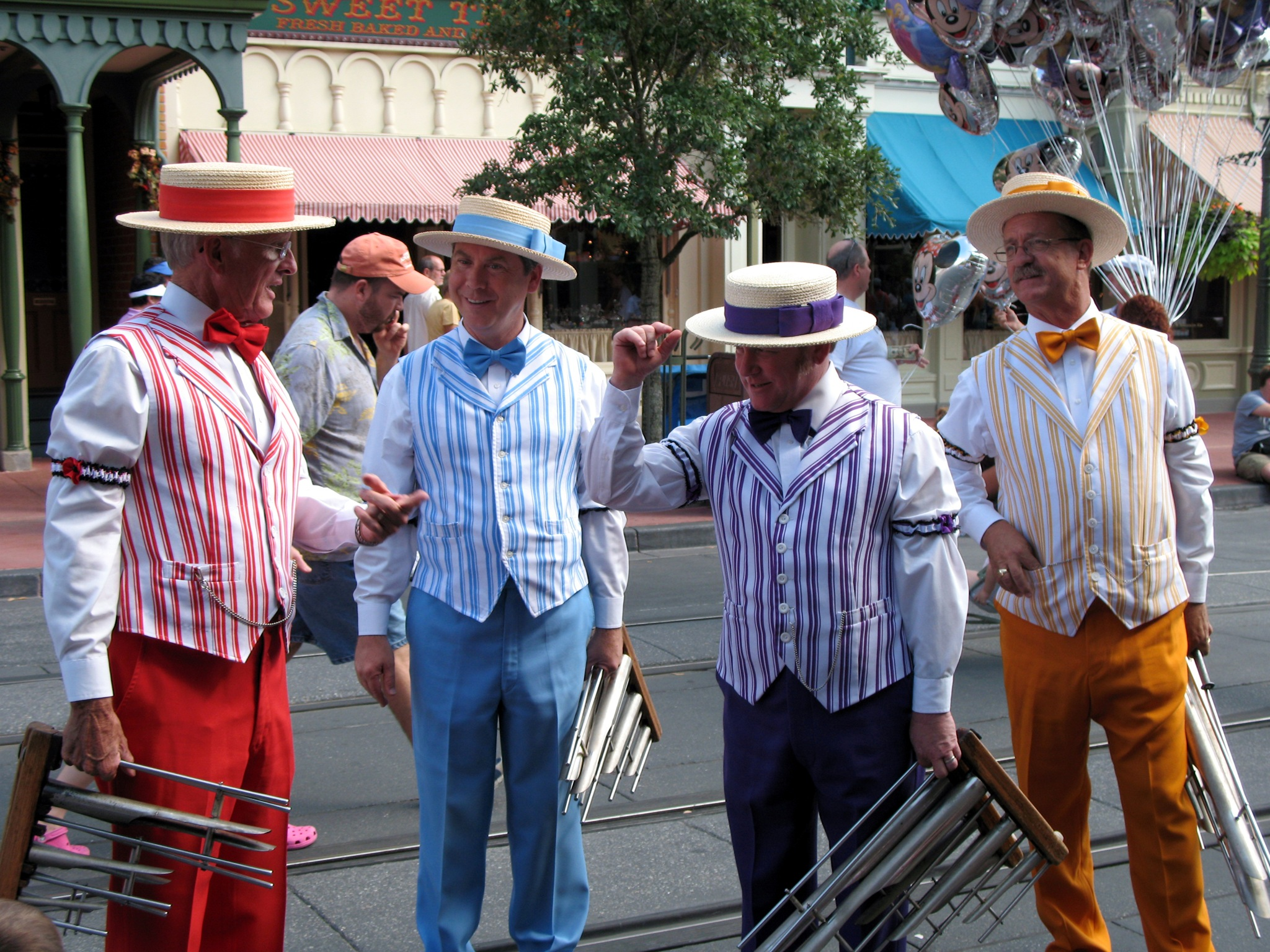 Barbershop quartet, Disneyworld, Florida, USA, Neel (red stripes), JC (light blue, usually sings with the Voices of Liberty at Epcot), Ken (purple), and Dan (Yes Really! in Yellow)